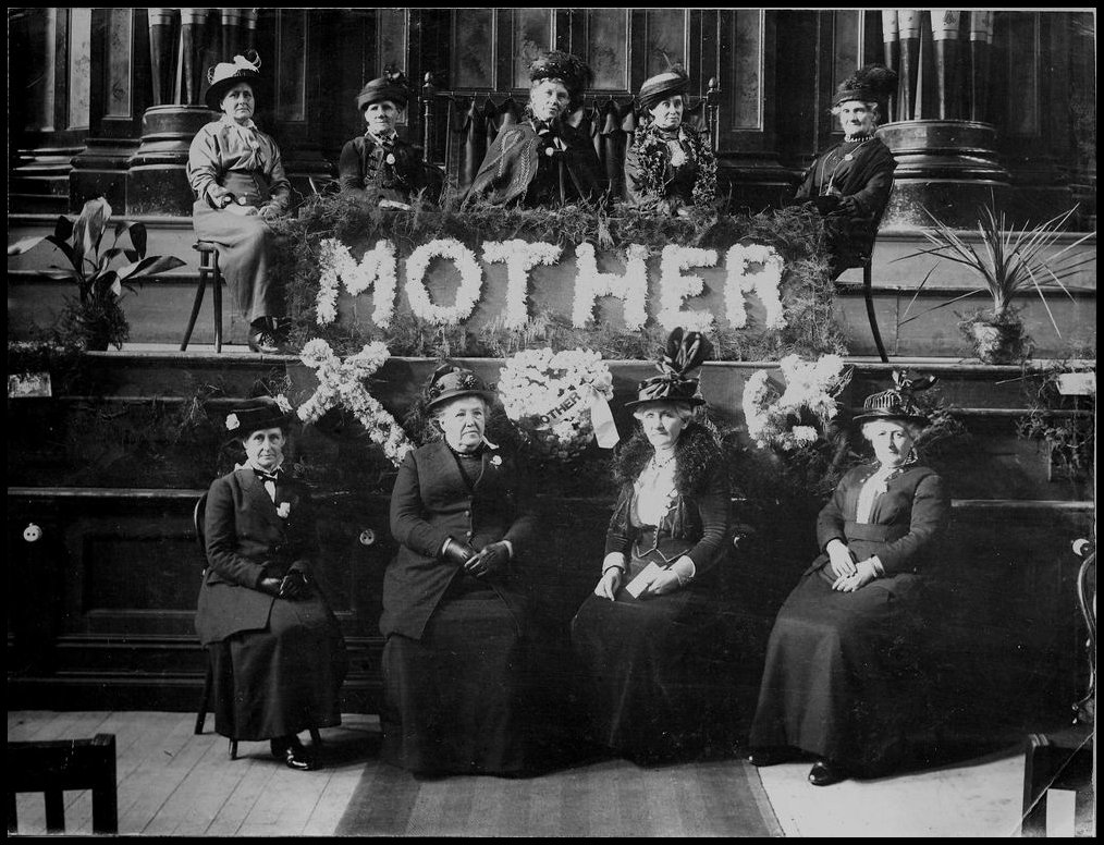 Nine women including Lady Holder, President of the Women's Christian Temperance Union.